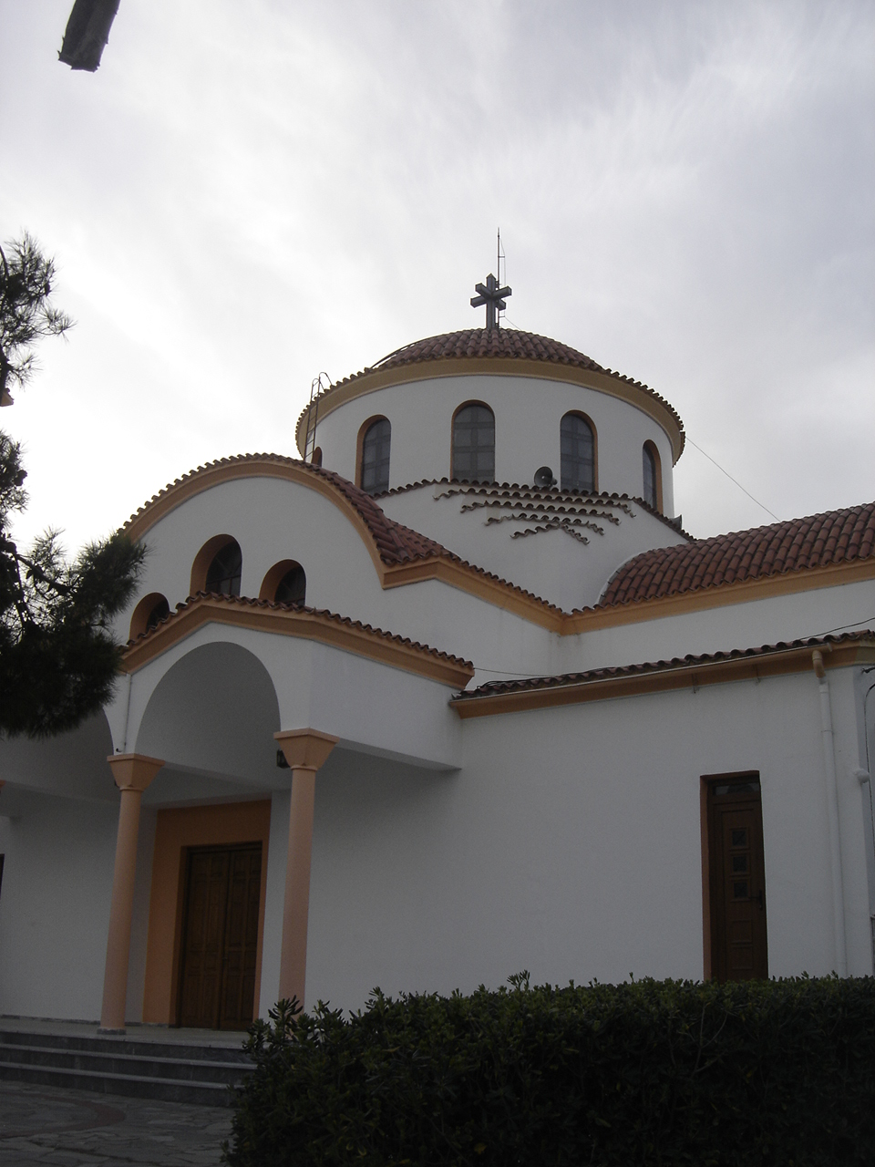 The church of Agios Dimitrios in Panagia Pediados.